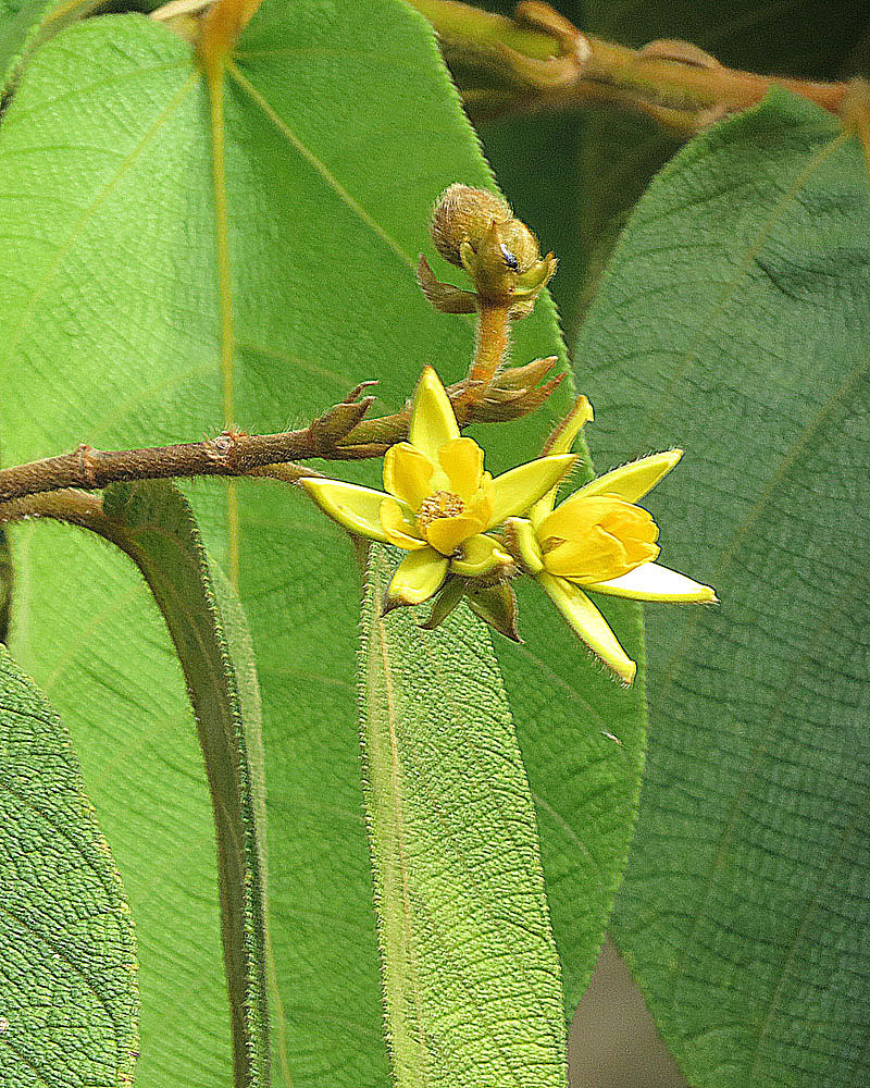 From the Monkey Comb genus, known widely in the Neotropics as Tapabotija, and here in Panama as Peinecillo. Planted for its wood and oils.